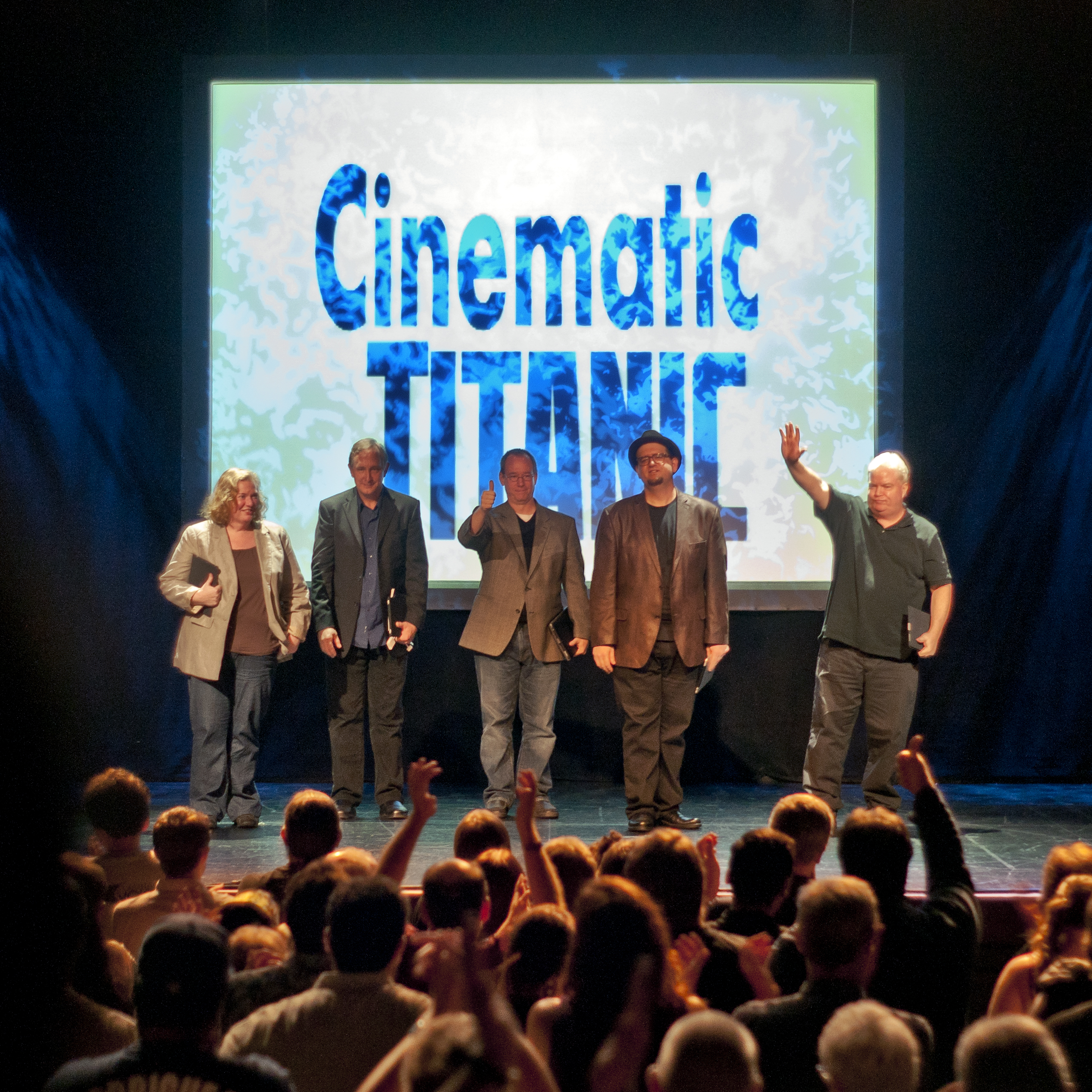 The cast of Cinematic Titanic at the Best Buy Theater in NYC on 09-24-2011 riffing on the movie East Meets Watts.